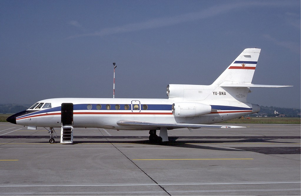 A Dassault Falcon 50 of Yugoslav Air Force at Basel in 1984